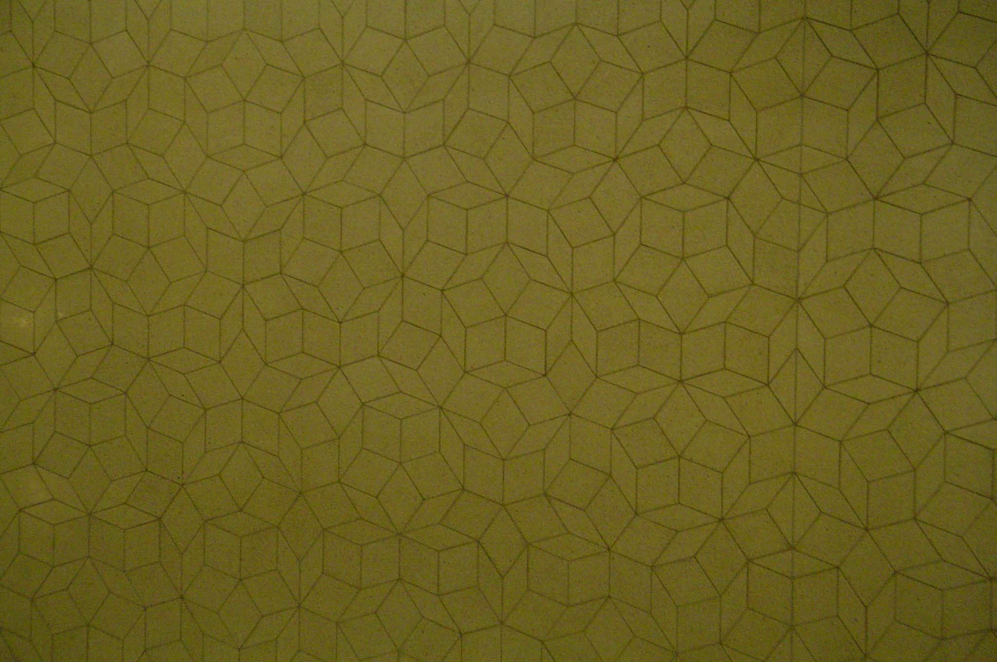 building floor at The University of Western Australia with mosaic work draw on Penrose tiling